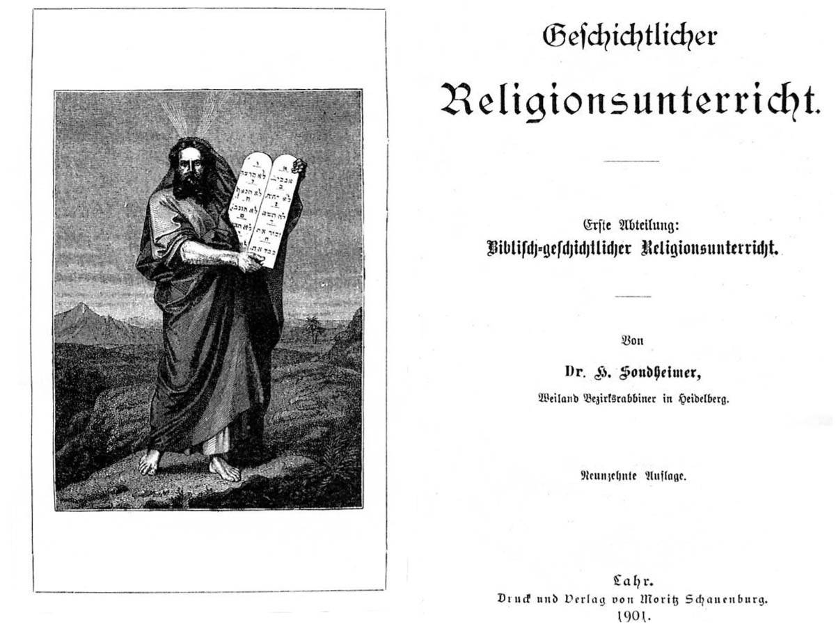 book title Geschichtlicher Religionsunterricht of Hillel Sondheimer 1901